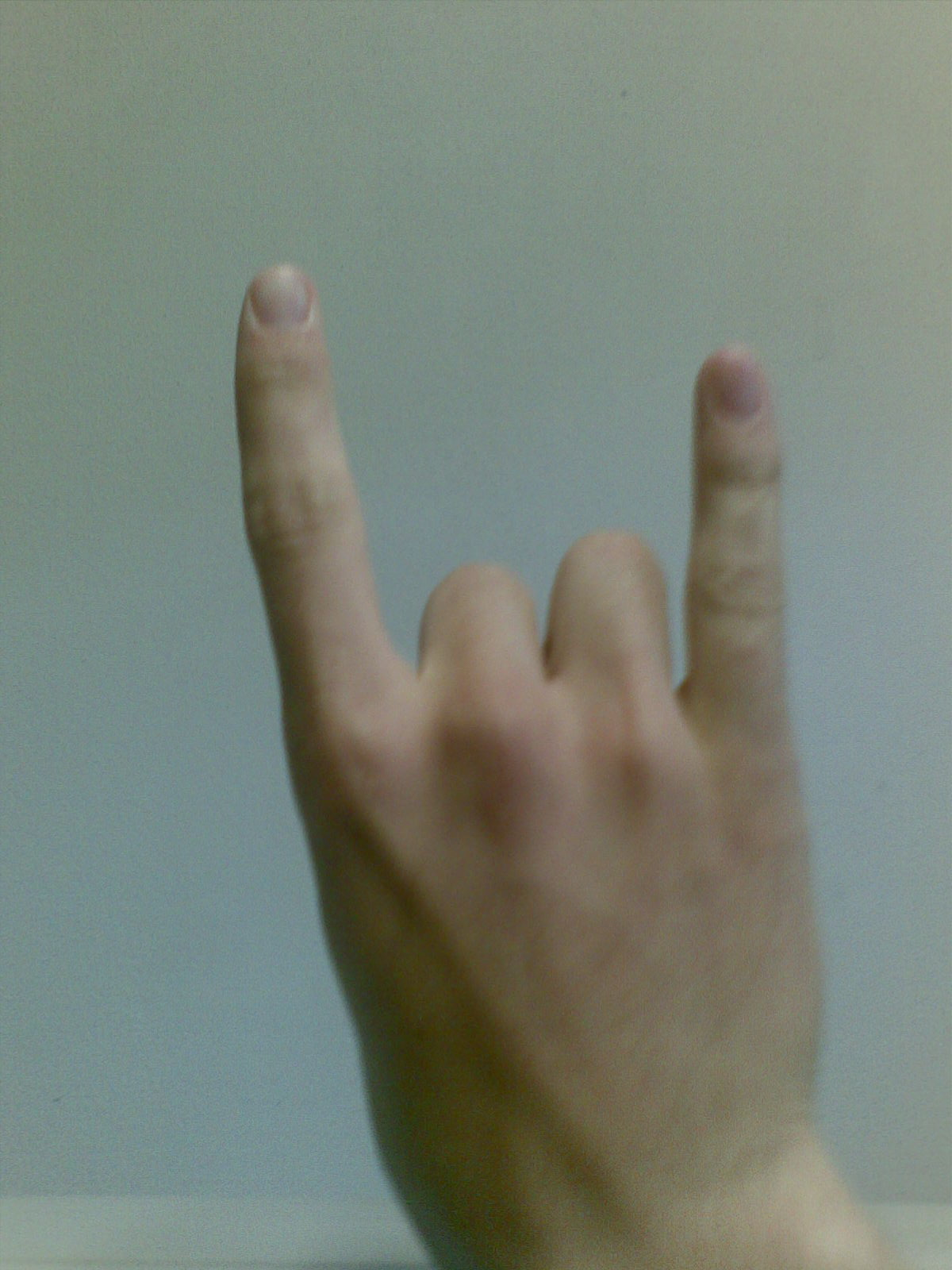 Hand forming horns